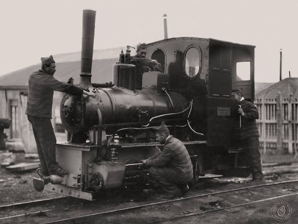 A group of convicts puting in conditions a steam locomotive at Ushuaia jail.